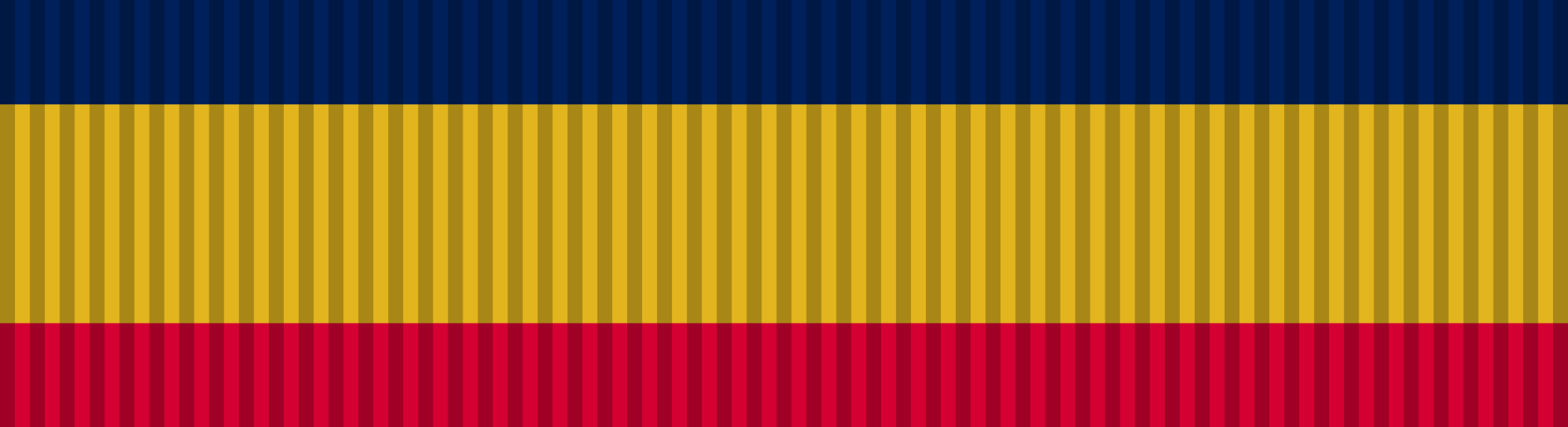 Department of the Navy Presidential Unit Citation Ribbon.